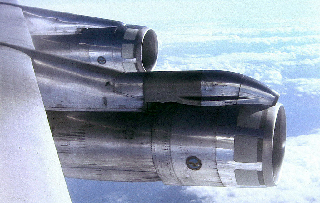 View from the port (left) fuselage window in a Boeing 707 en route from Gatwick Airport, England to Vancouver International Airport, British Columbia, Canada.